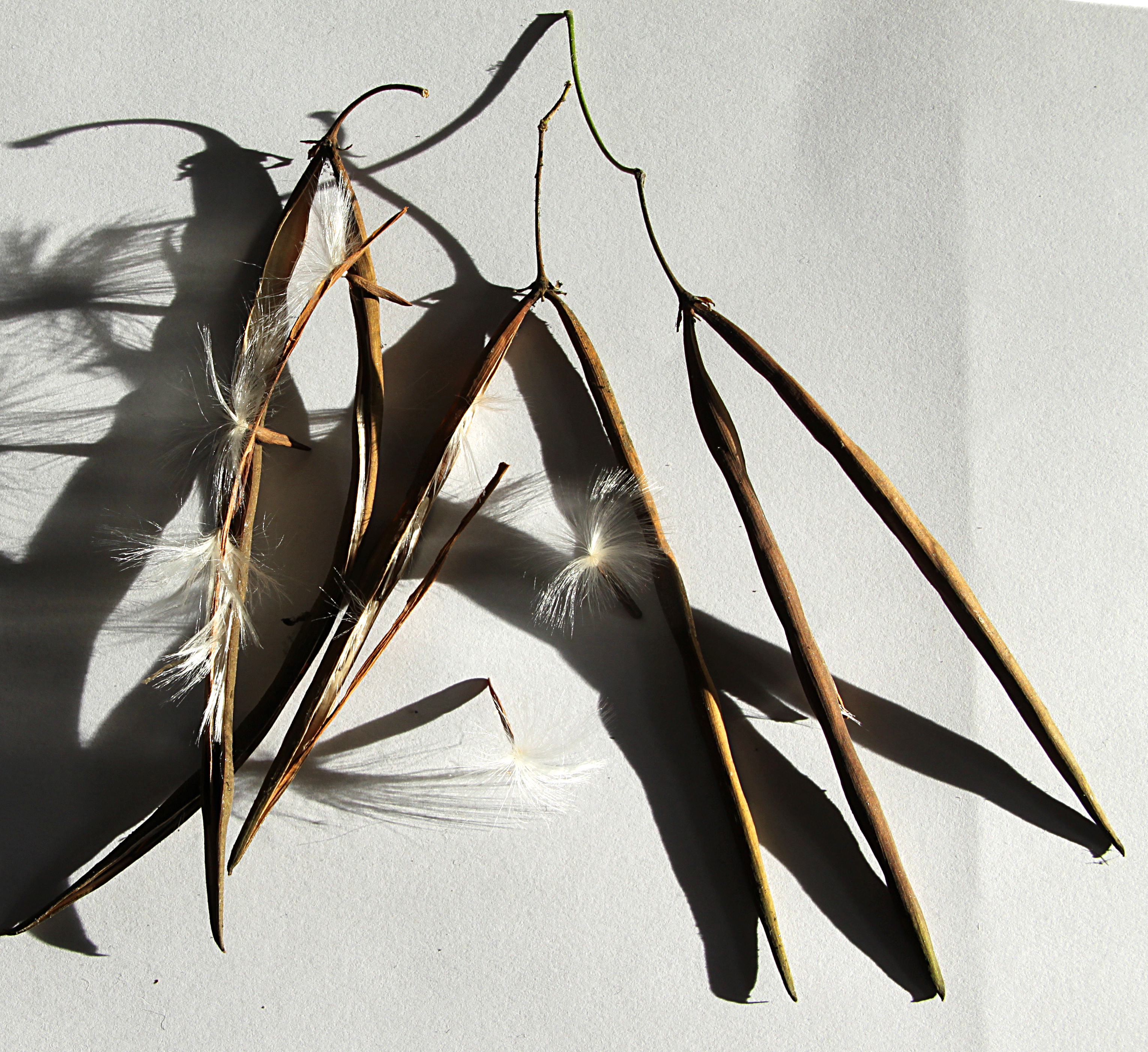 fruits of Tracheospermum jasminoides, 11 cm long, and seeds, 12 mm long disregarding the seed hairs, photographed on 6 december 2014 in Rozenburg, Netherlands